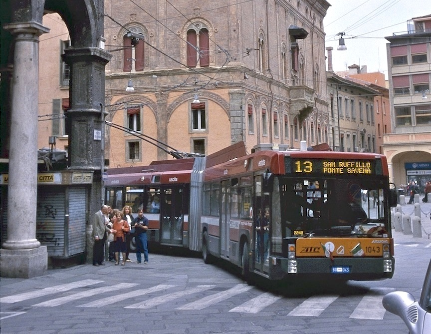 In Bologna, Italy, a trolleybus turns from Via Rizzoli into Piazza della Mercanzia, in the historic city centre. Trolleybus 1043 was built in 1999 by Modena-based Autodromo (Carrozzeria Autodromo Modena), on an MAN chassis. It is in service on route 13 to San Ruffillo.